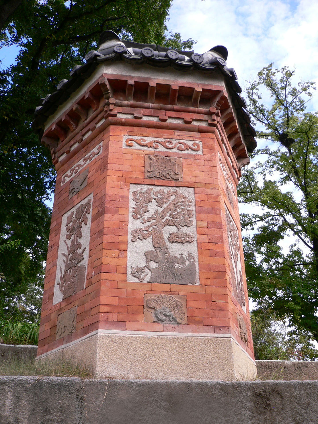 Amisan chimney in Gyeongbokgung, Seoul, South Korea